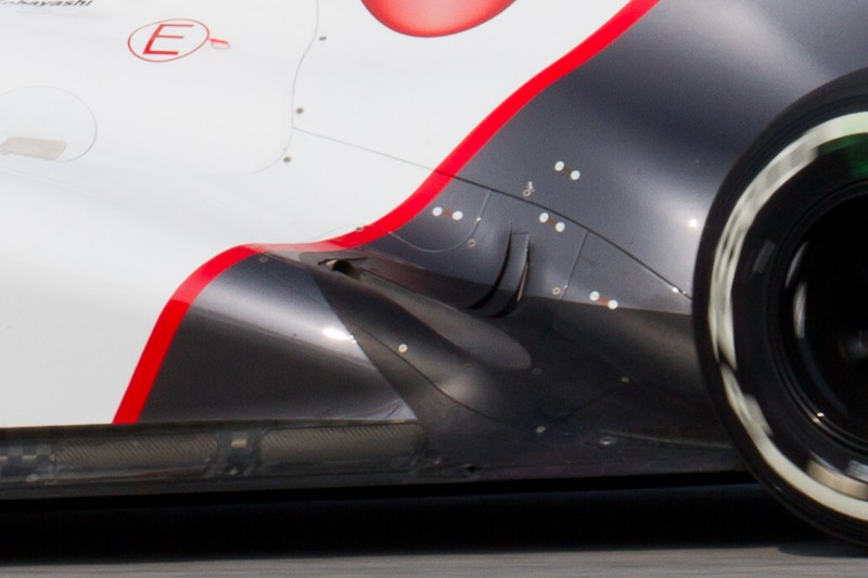 Formula One 2012 Rd.2 Malaysian GP: Sauber C31's exhaust.